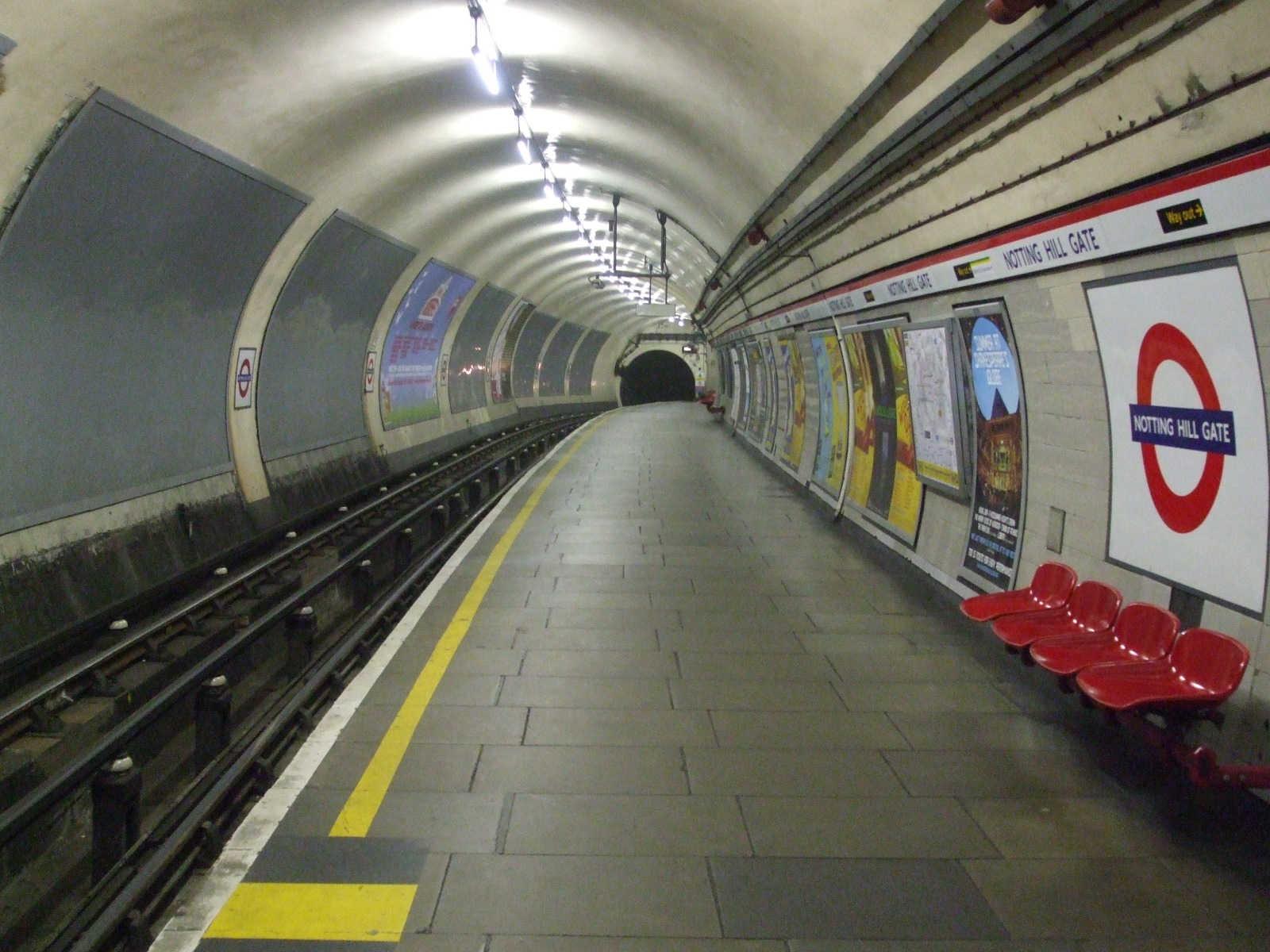 Notting Hill Gate tube station Central line eastbound platform looking west